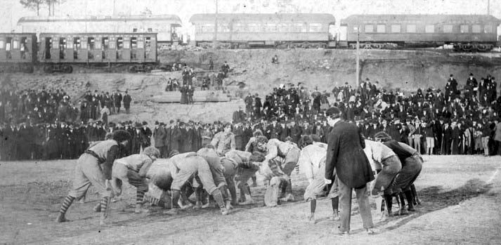 This is a cropped view of a photograph taken at the football game between Auburn University and the University of Georgia on November 28, 1895 at Piedmont Park in Atlanta. The full photograph (at a smaller resolution) can be seen at Atlanta History Photograph Collection, Atlanta History Center.